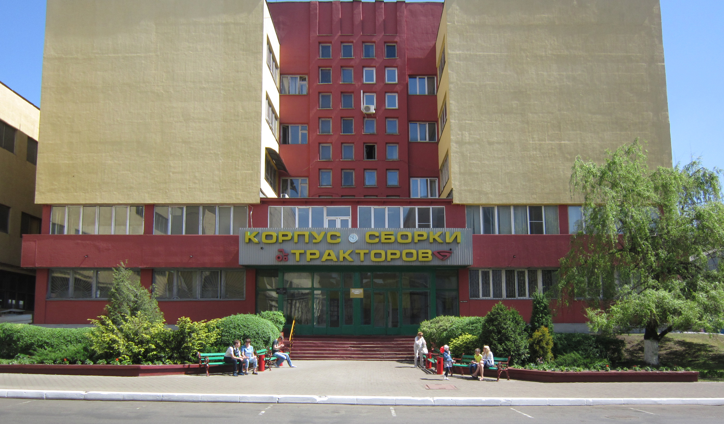 Minsk Tractor Works. Open Day 2017. Assembly line